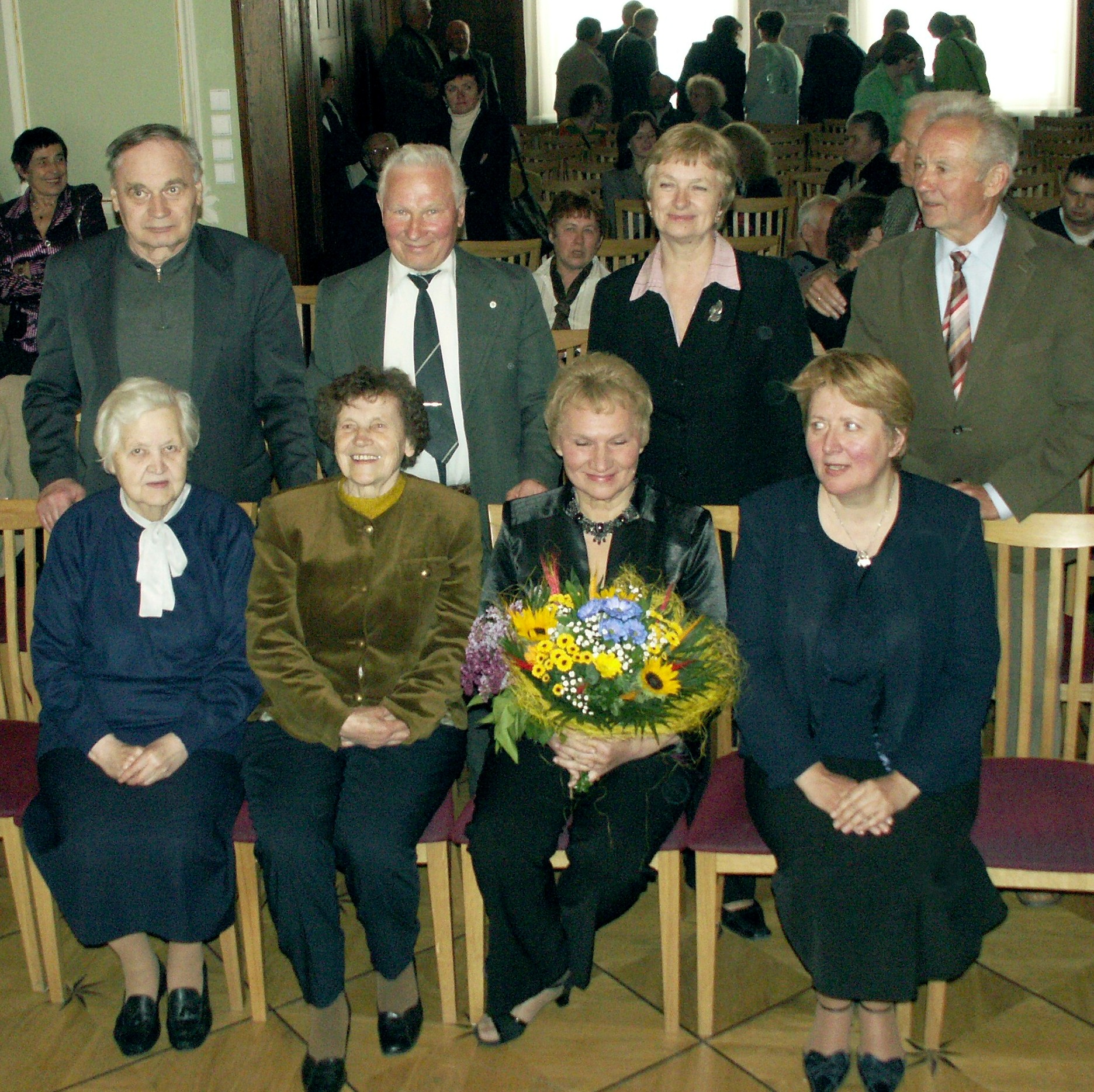 laureats of local lore studium Mikelis price from Šiauliai